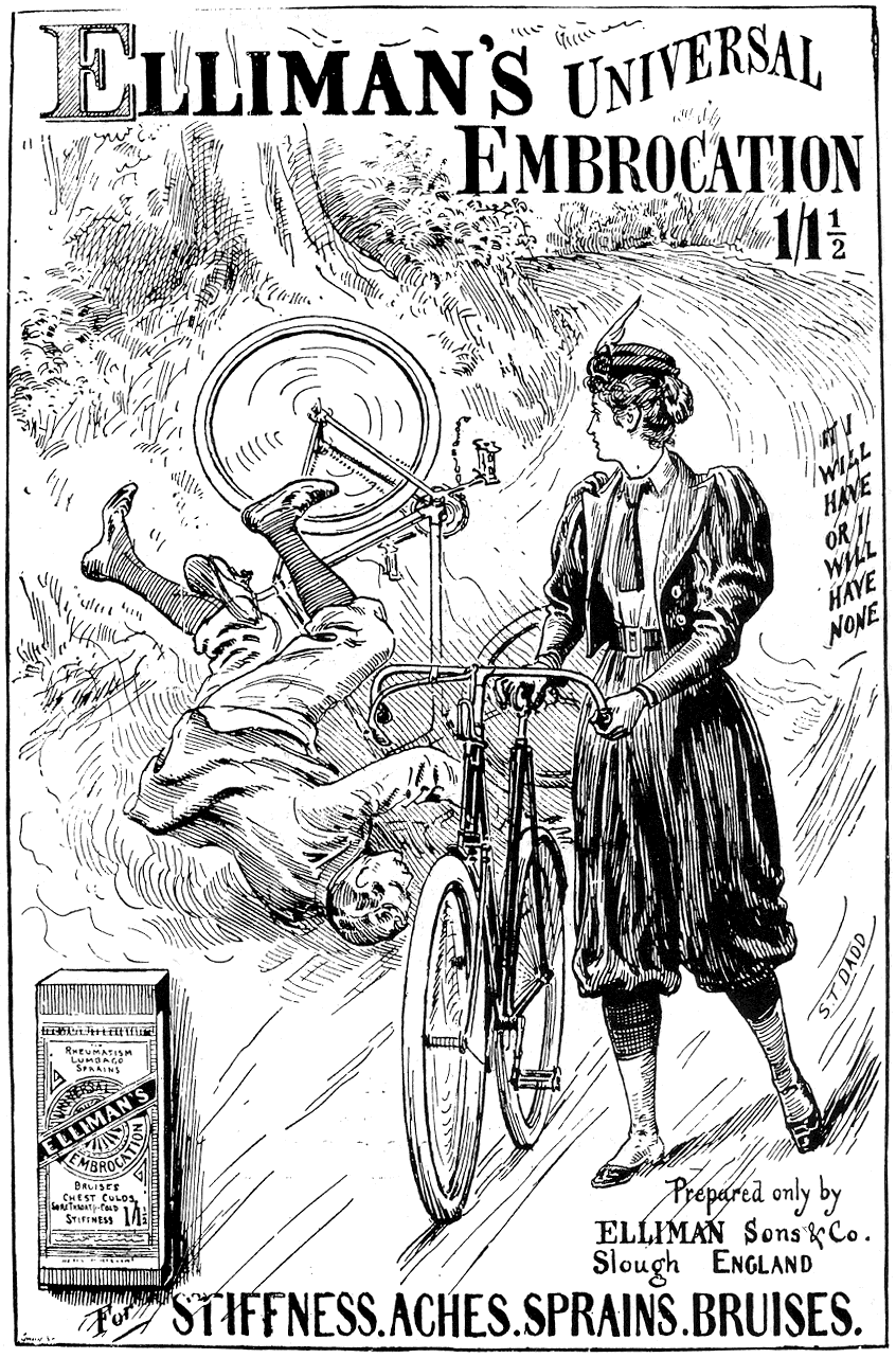 1897 advertisement in The Graphic for Elliman's Universal Embrocation (manufactured in Slough), showing a relatively early example of an ordinary non-sea-bathing Western woman appearing skirtless in public (wearing "rationals" or "knickerbockers" or "bloomers" for bicycle-riding). The whole outfit (top and bottom) was known as a "bicycle suit". For the radical change in the way that women rode bicycles over a period of just ten years, compare Image:Bicycling-ca1887-bigwheelers.jpg and Image:Ausfahrt im Sociable um 1886 - Verkehrszentrum.JPG (which date from just before the "safety bicycle" and the woman's "bicycle suit" started to catch on).